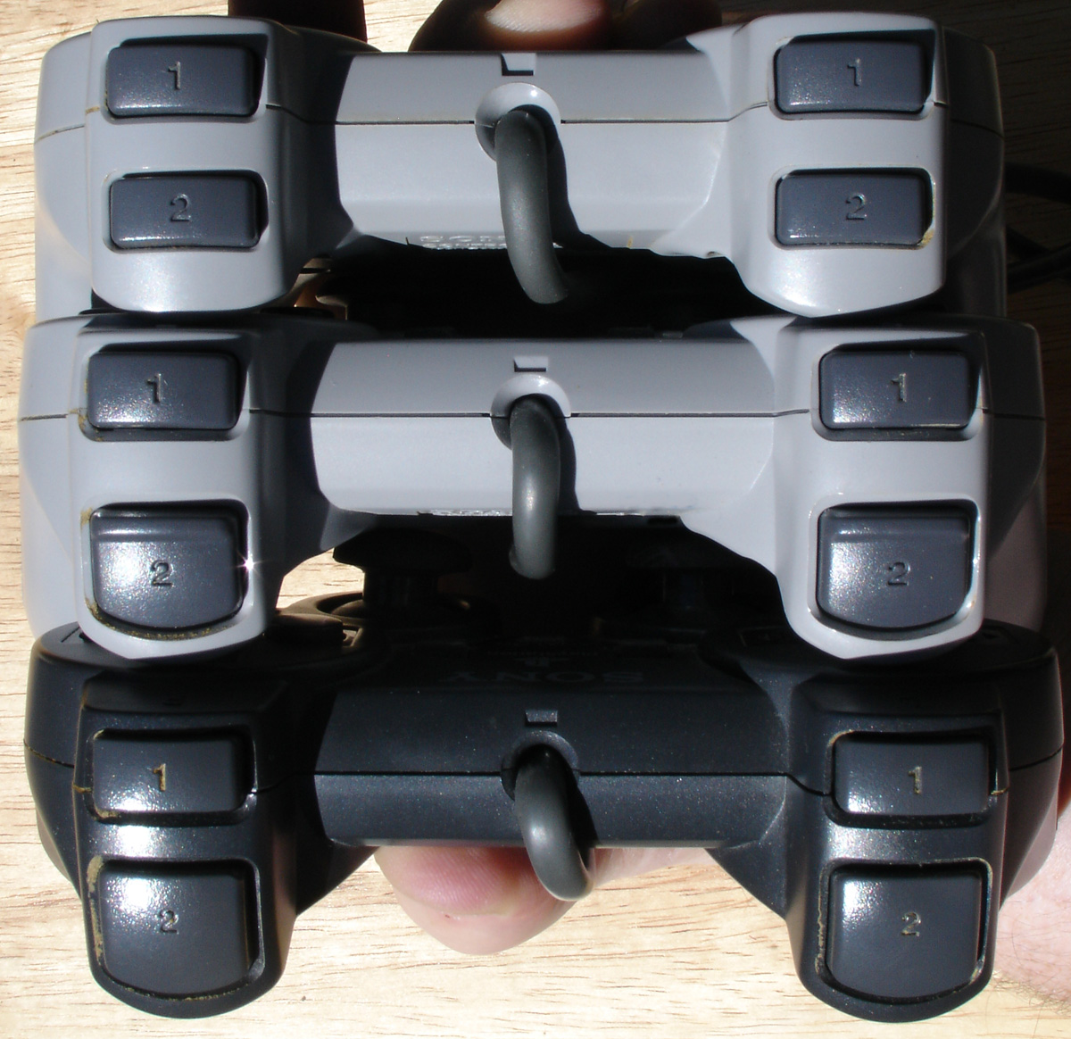 This a picture of all 3 Sony control pads offered for the PlayStation 1. The earliest is at the top, the original PS1 D-pad (US version). The markings on the back are "CONTROLLER" and the model number is SCPH-1080. In center is the second controller chronologically, the Dual Analog Controller (US version). Note the larger L2 and R2 buttons with ridges on top and the slightly wider spacing of the left and right halves of the controller. The markings on the back are "ANALOG CONTROLLER" and the model number is SCPH-1180. At the buttom is the final controller offered, the DualShock(tm) controller (US black version). Note the L2 and R2 buttons are even larger again, extending further toward the top of the controller, although the ridge at the top has been removed. Although this controller is black, it is not a DualShock 2. The markings on the back are "ANALOG CONTROLLER" and the model number is SPCH-1200.